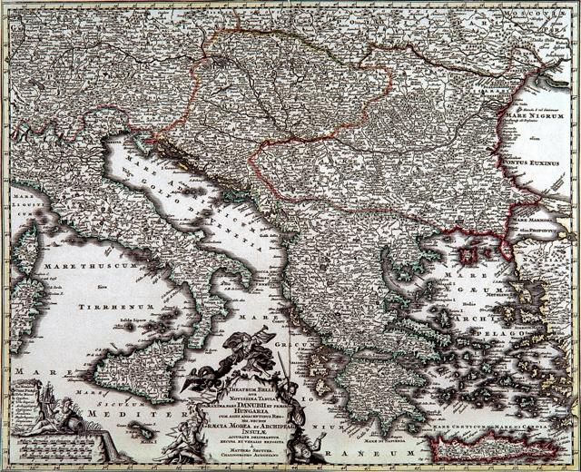 The map represents the theatre of war carried on by Imperial Austrian Powers and Turks, which ended in 1718, with the Peace from Pasarowitz.